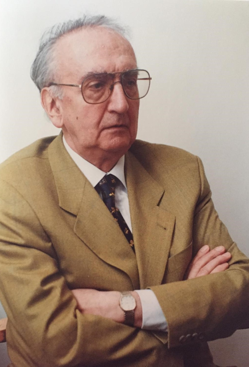 Miodrag Pavlović, Serbian poet, writer, critic and academic. Српски (ћирилица): Миодраг Павловић, српски књижевник, песник и есејиста, академик САНУ.